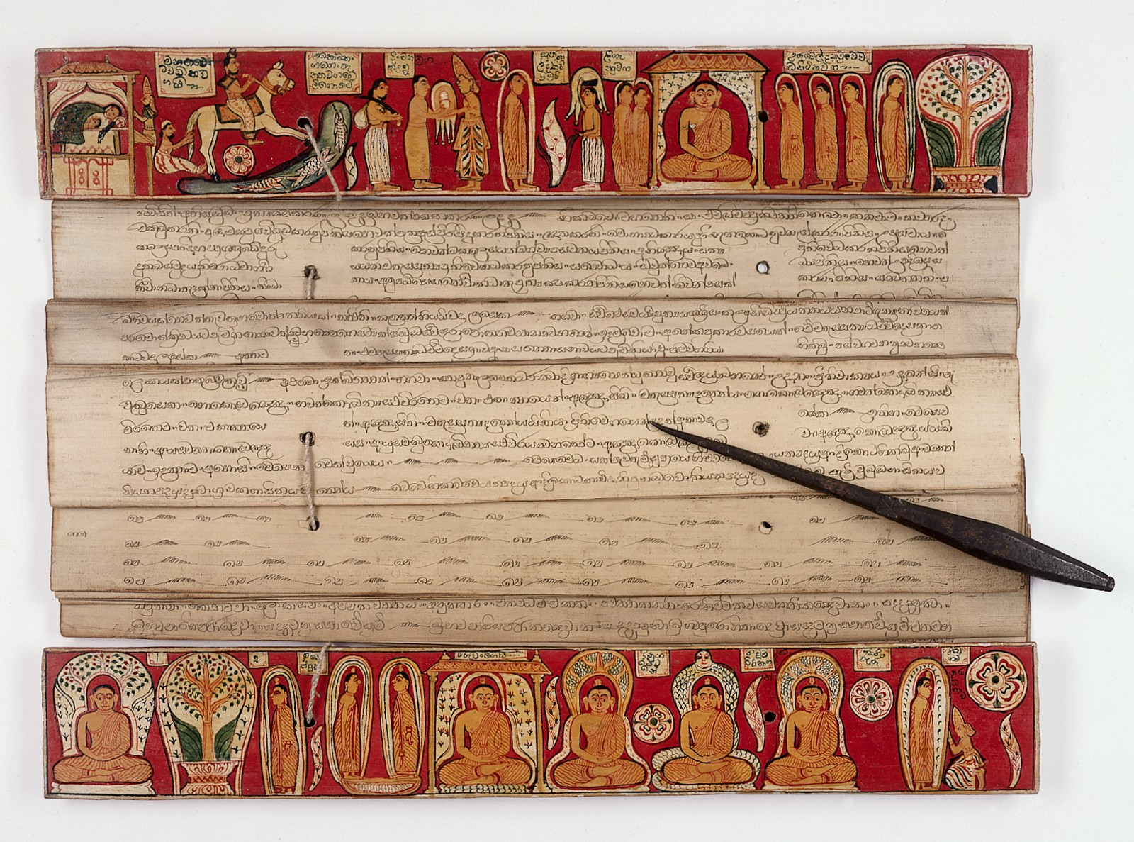 SINGHALESE MANUSCRIPT 143 Painted wooden binding open to reveal palm leaves. Stylus included with manuscript. Wellcome Images